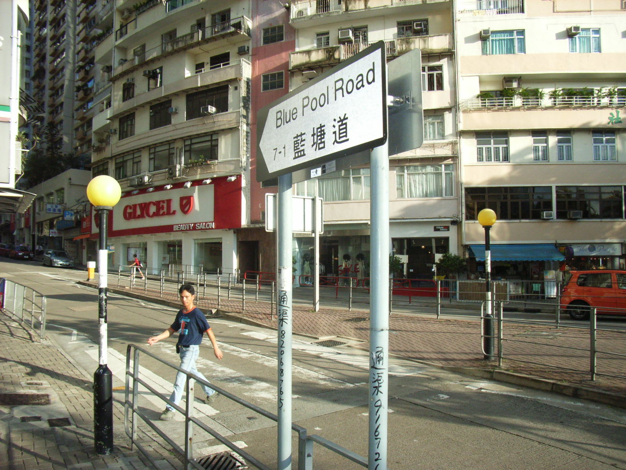 藍塘道(Blue Pool Road)，是香港島zh:跑馬地的一條上山道路。 Author: BEVERLYSHEN